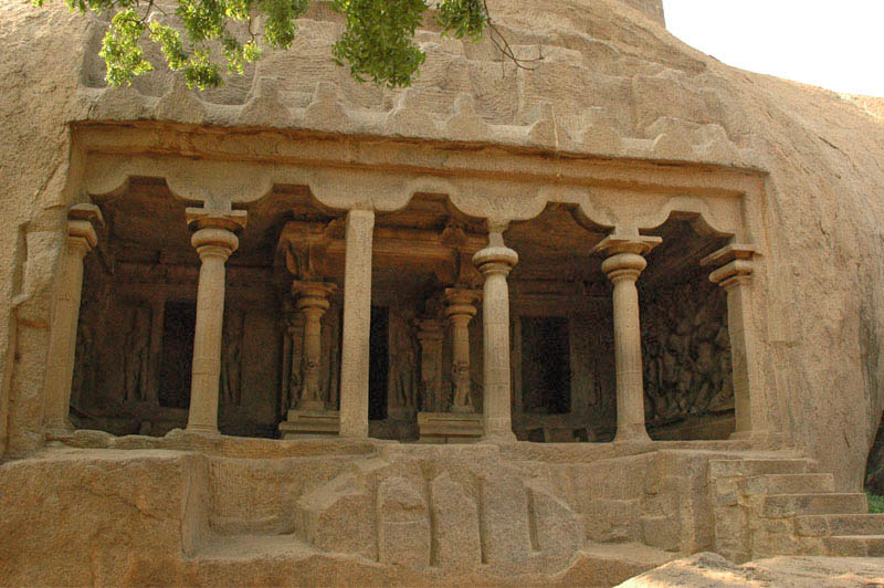 Mahishasura Mardini cave. Mahabalipuram, India